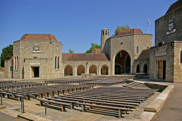 The Shrine, Aylesford Priory. The main Shrine at The Friars (see 1202581) dedicated to Our Lady of the Assumption and St. Simon Stock (Prior General of the Carmelite Order, who died in 1265). St Joseph's Chapel on the left.